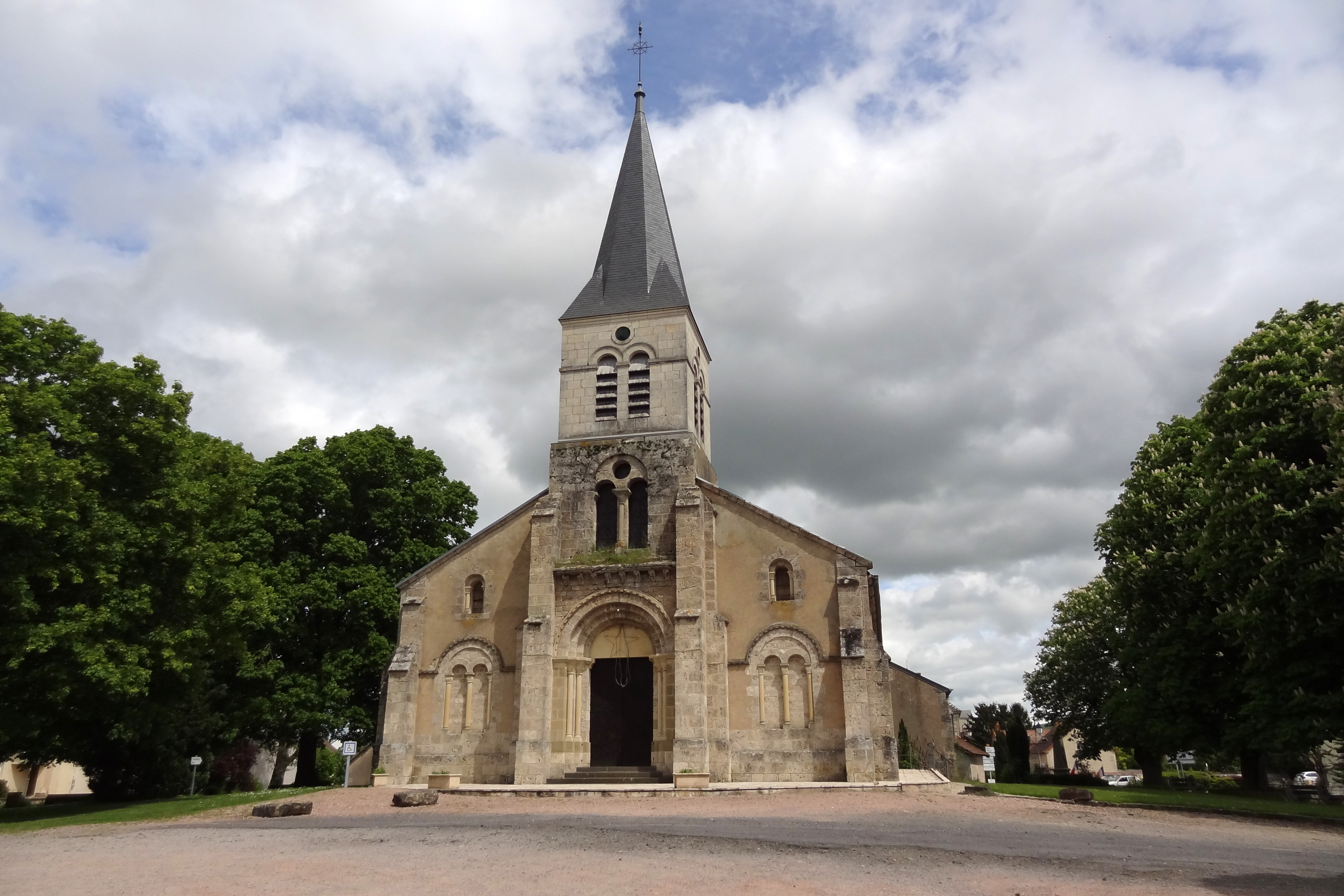 Notre-Dame church, Boucé, Allier, France